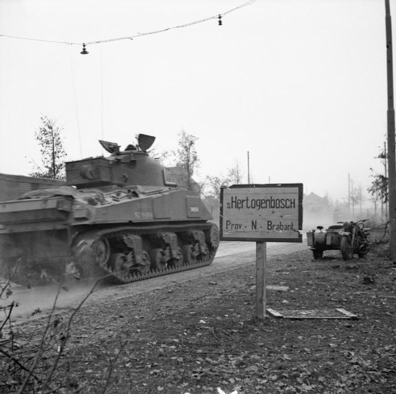 The British Army in North-west Europe 1944-45 A Sherman tank rolls into Hertogenbosch, 26 October 1944.